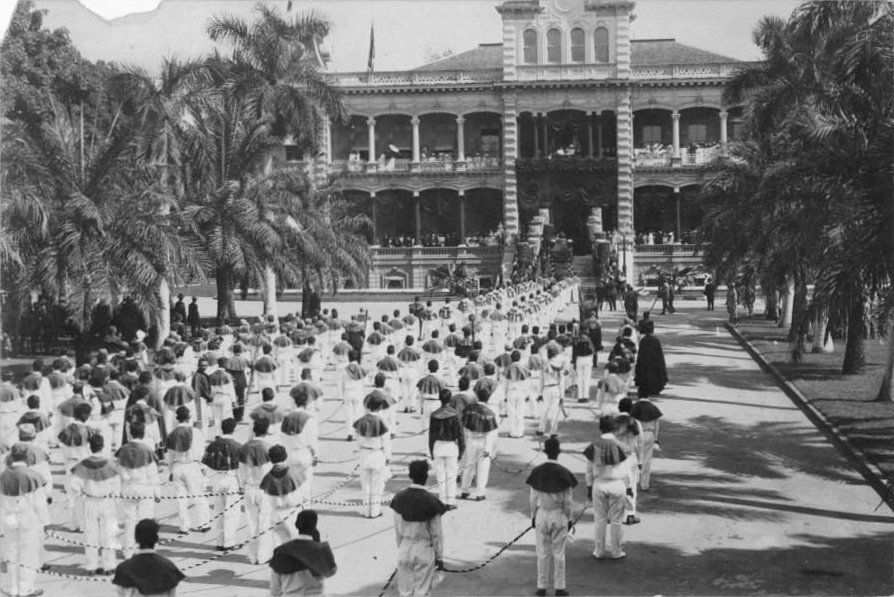 Funeral Procession of Liliuokalani.